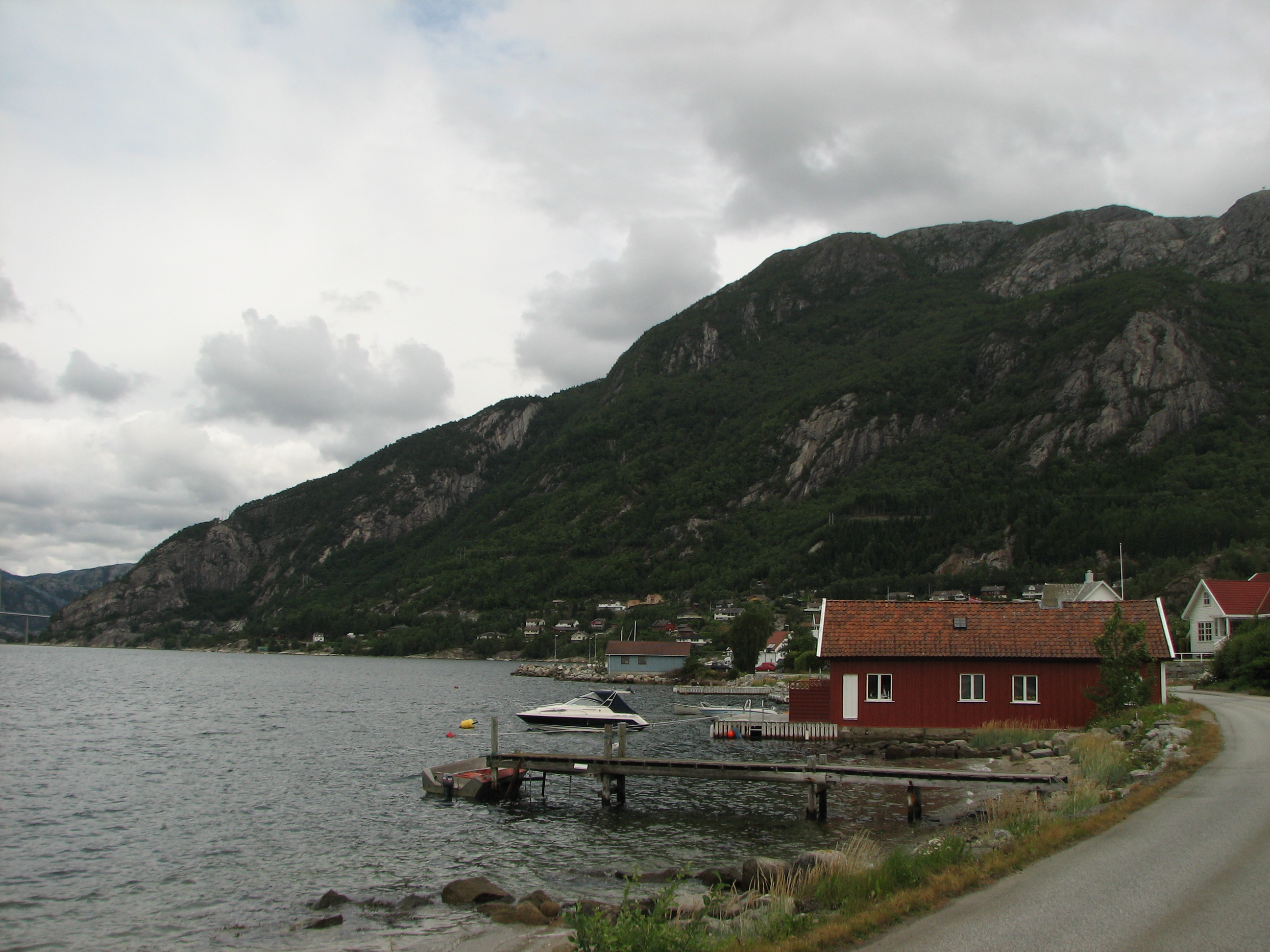 Forsand - marina Česky: Forsand - přístaviště